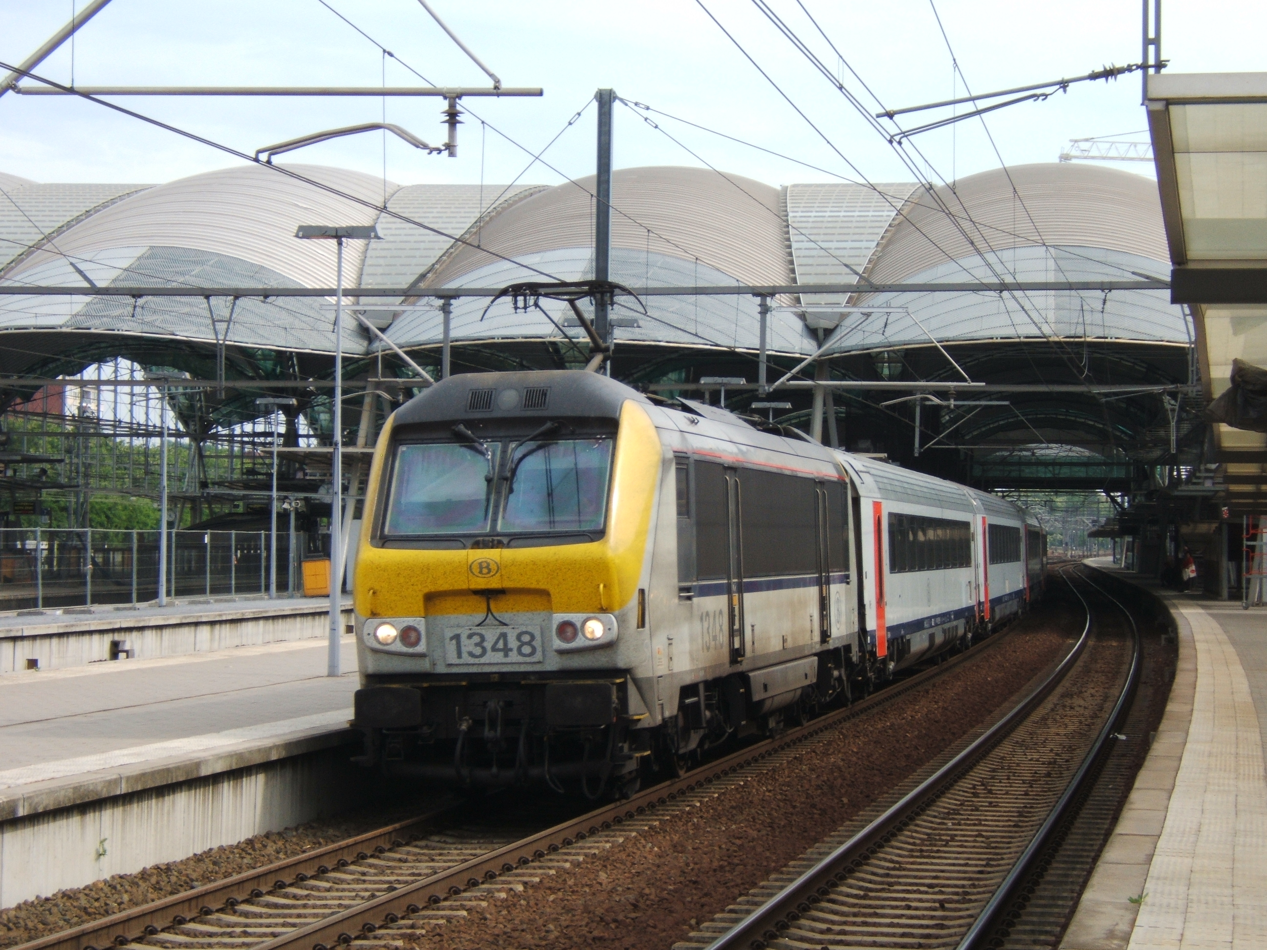 IC A train with a loc type 13 in Leuven.